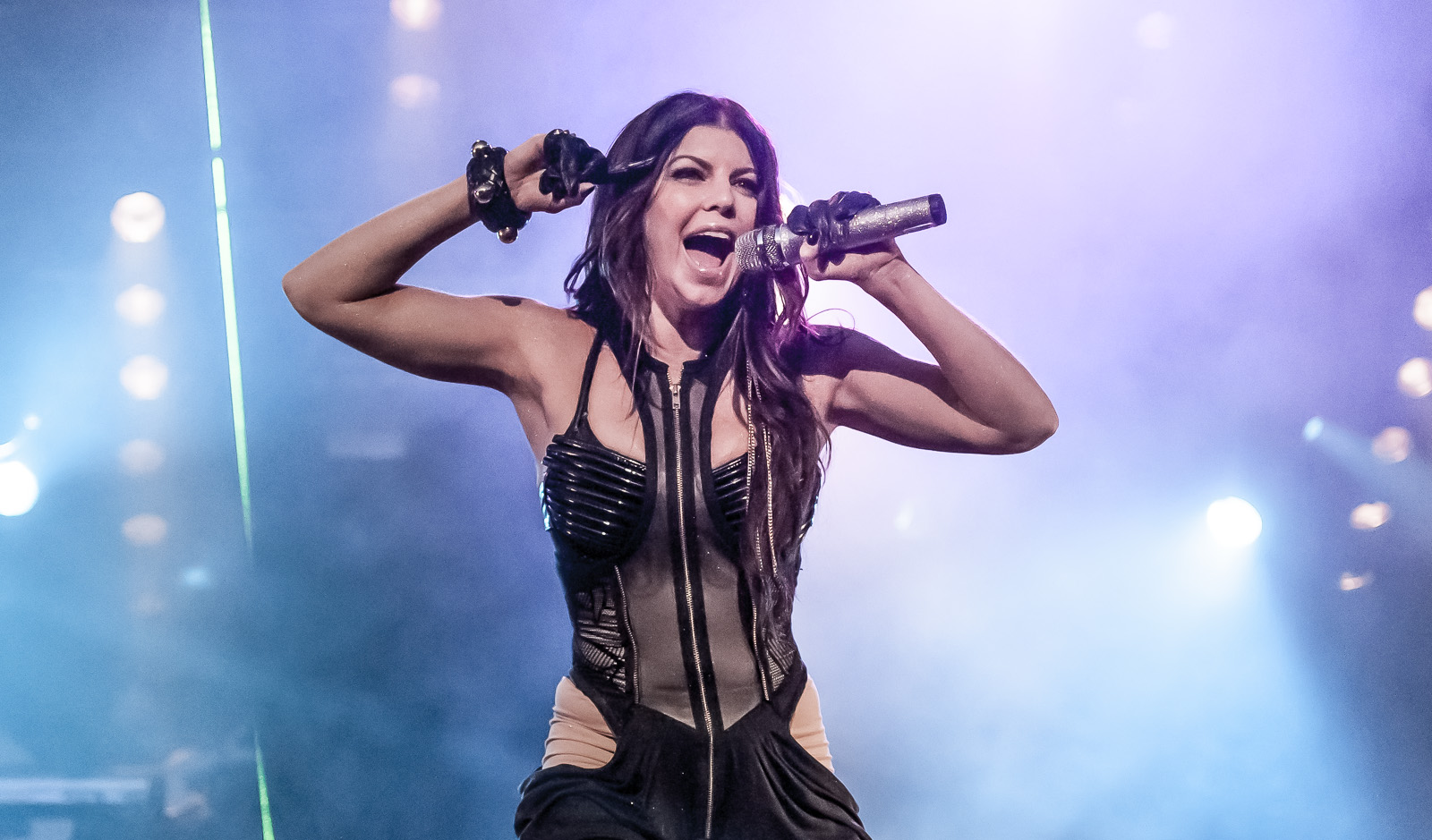 Fergie from The Black Eyed Peas performing at Quart Festivalen 2009, Kristiansand Norway.